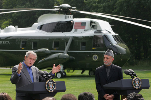 President George W. Bush, addresses the media during a joint press availability with Afghanistan President Hamid Karzai Monday Aug. 6, 2007, at Camp David near Thurmont, Md., saying, “ We’re working closely together to help the people of Afghanistan prosper. We work together to give the people of Afghanistan a chance to raise their children in a hopeful world. And we’re working together to defeat those who would try to stop the advance of a free Afghan society.” White House photo by Chris Greenberg